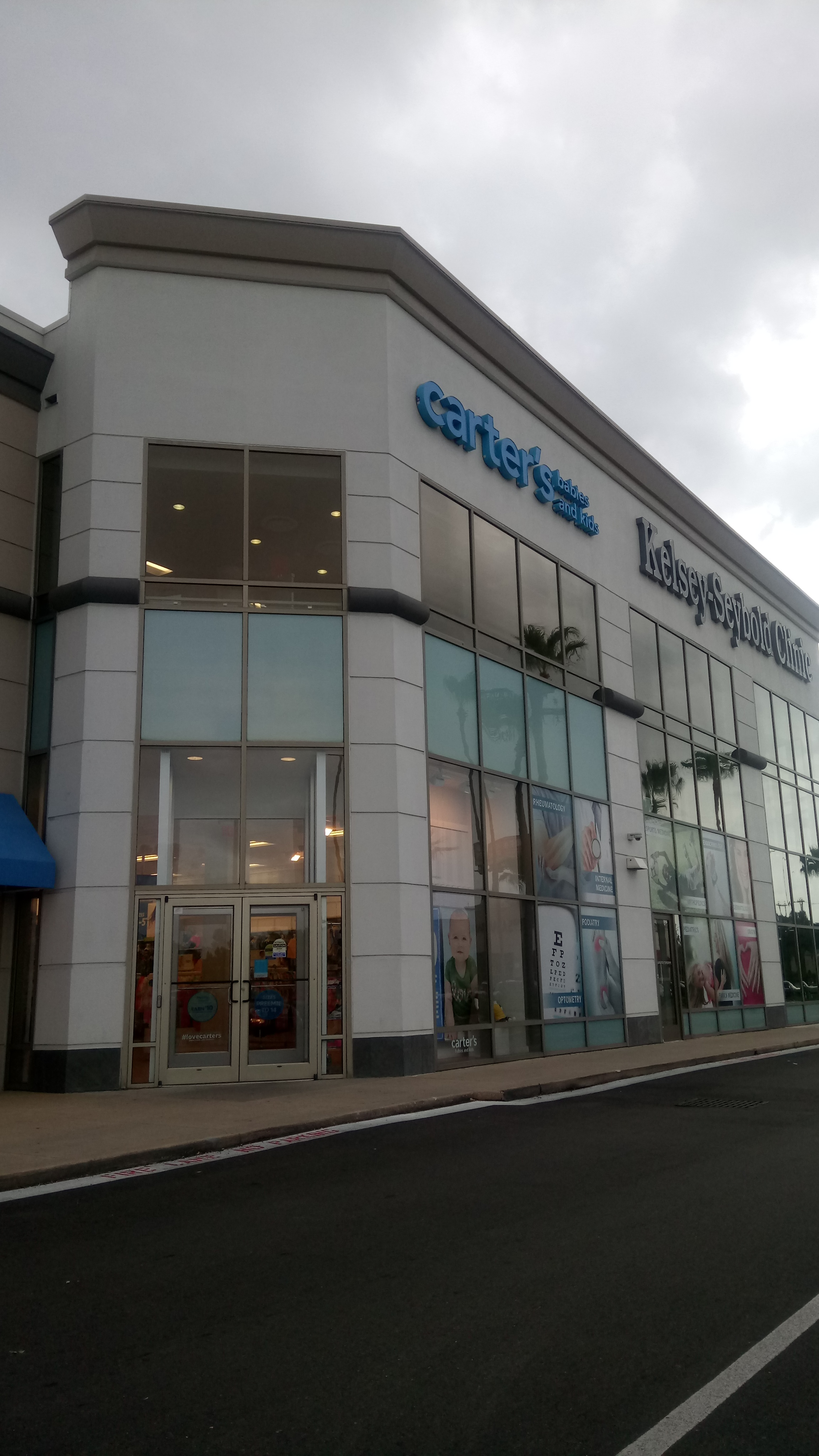 Carters and Kelsey Seybold in Meyerland Plaza